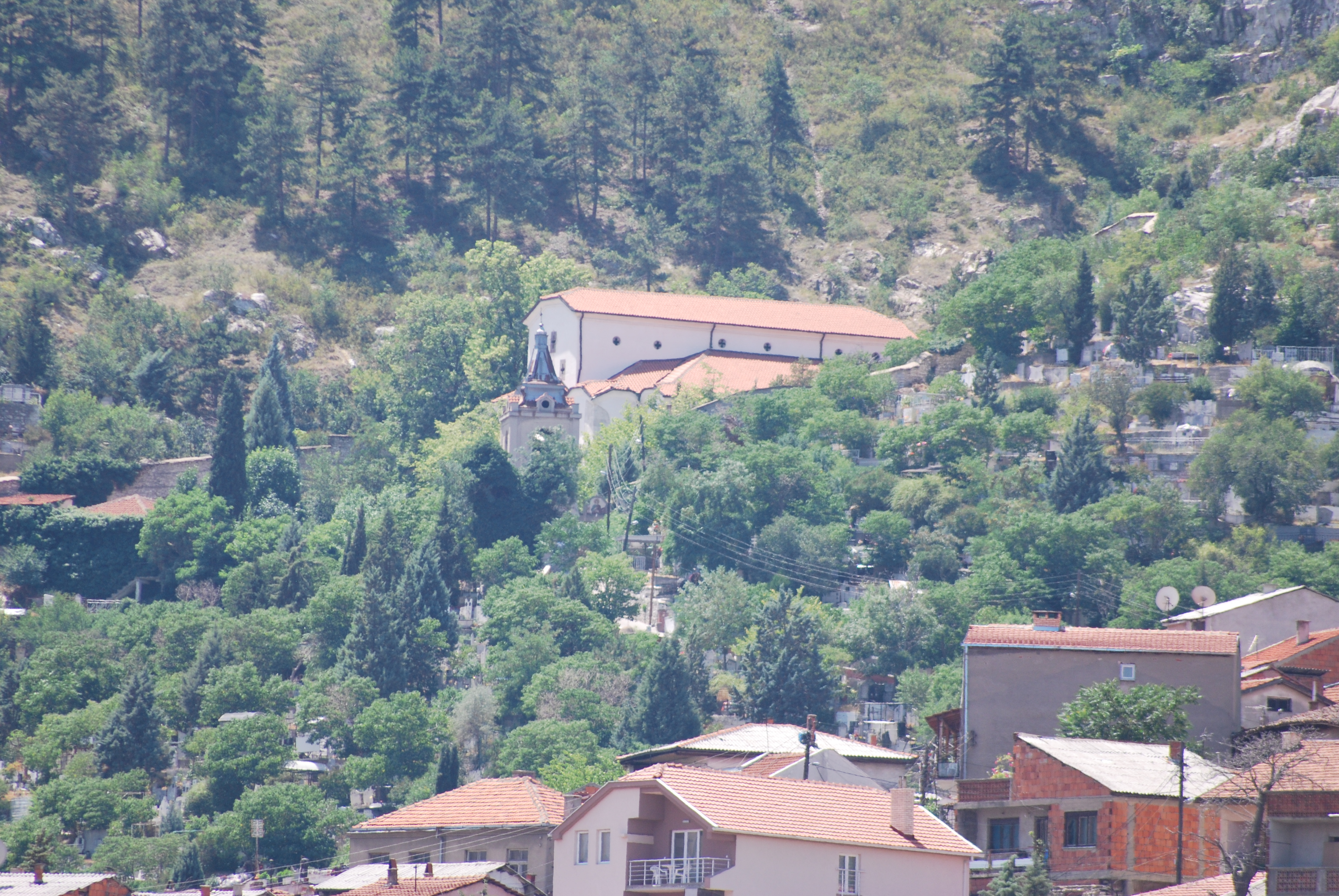 Veles, Macedonia